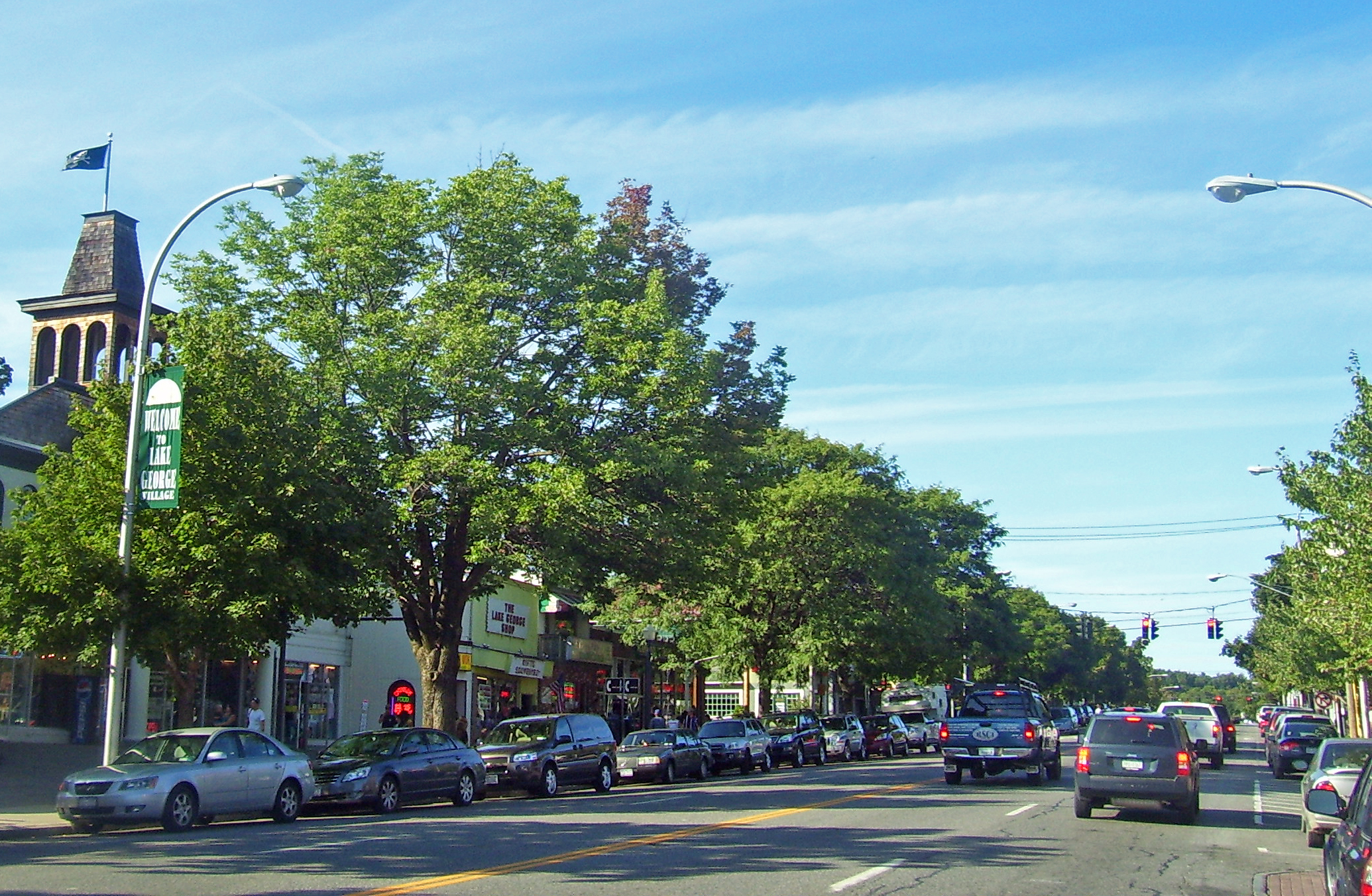 View north along US 9/NY 9N in downtown Lake George, NY, USA